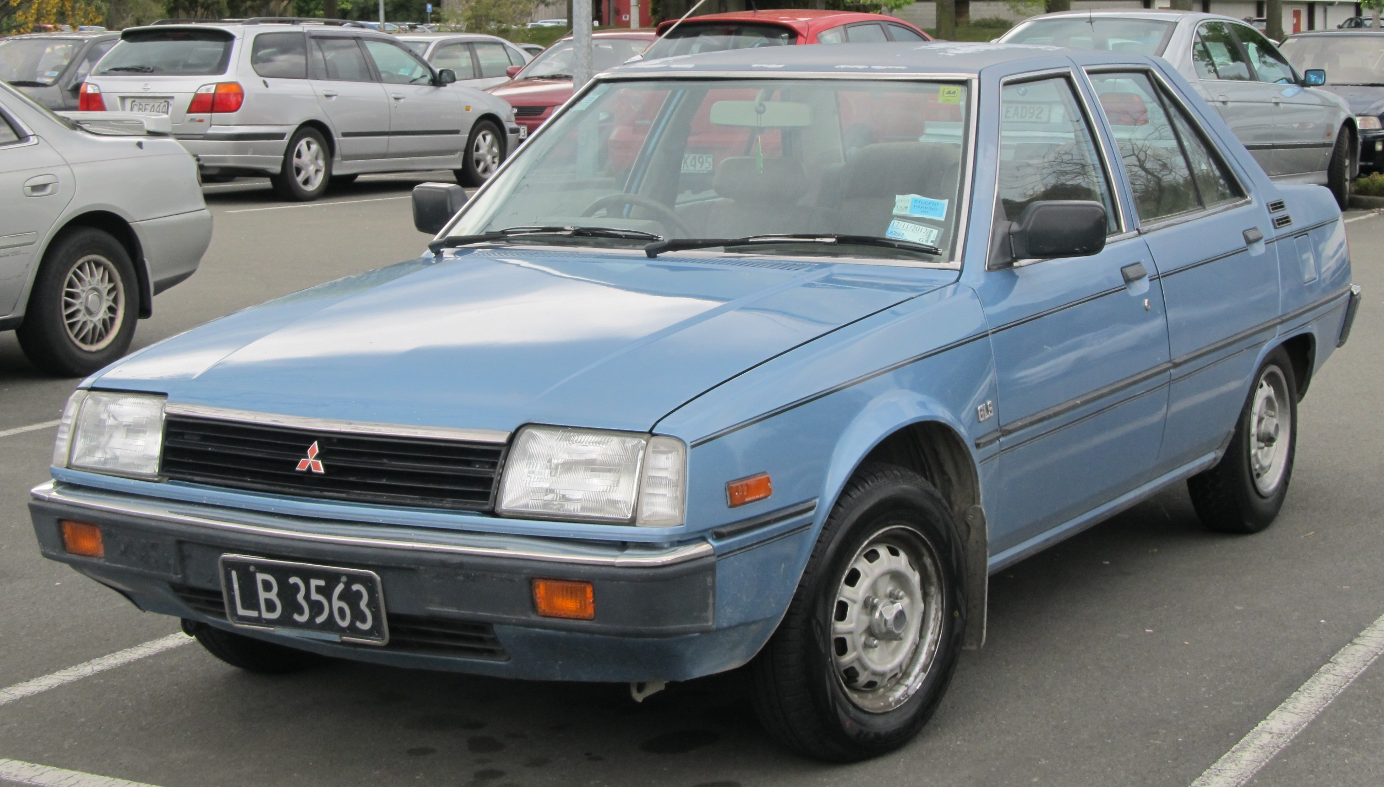 LB3563 I first spotted this last year, but I thought it deserved a better photo from the front. These Tredias have always looked neat in my eyes, and they have the weirdest name... And straight after I took this, the most amazing thing happened...